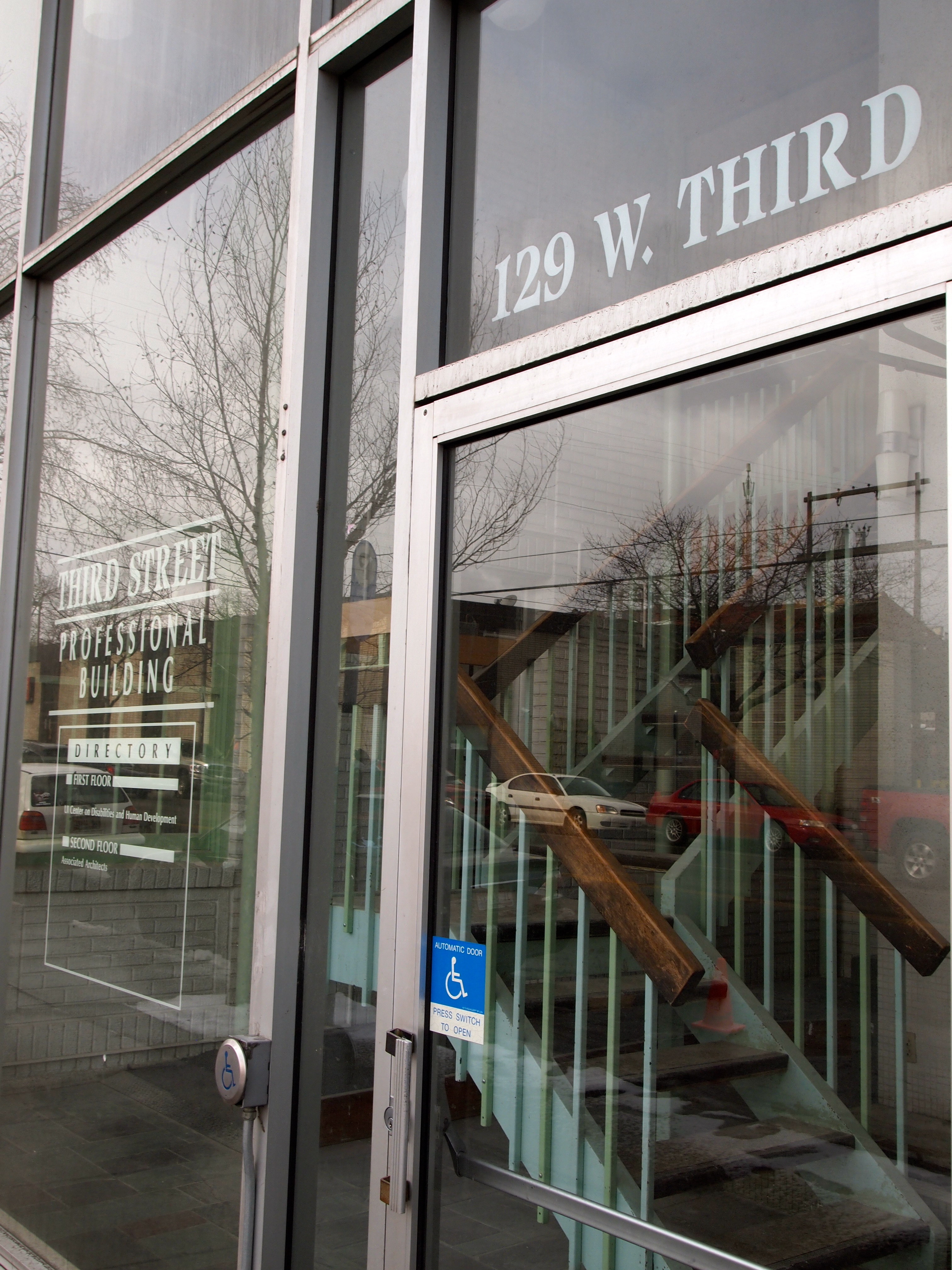 Architecture, Historic Preservation